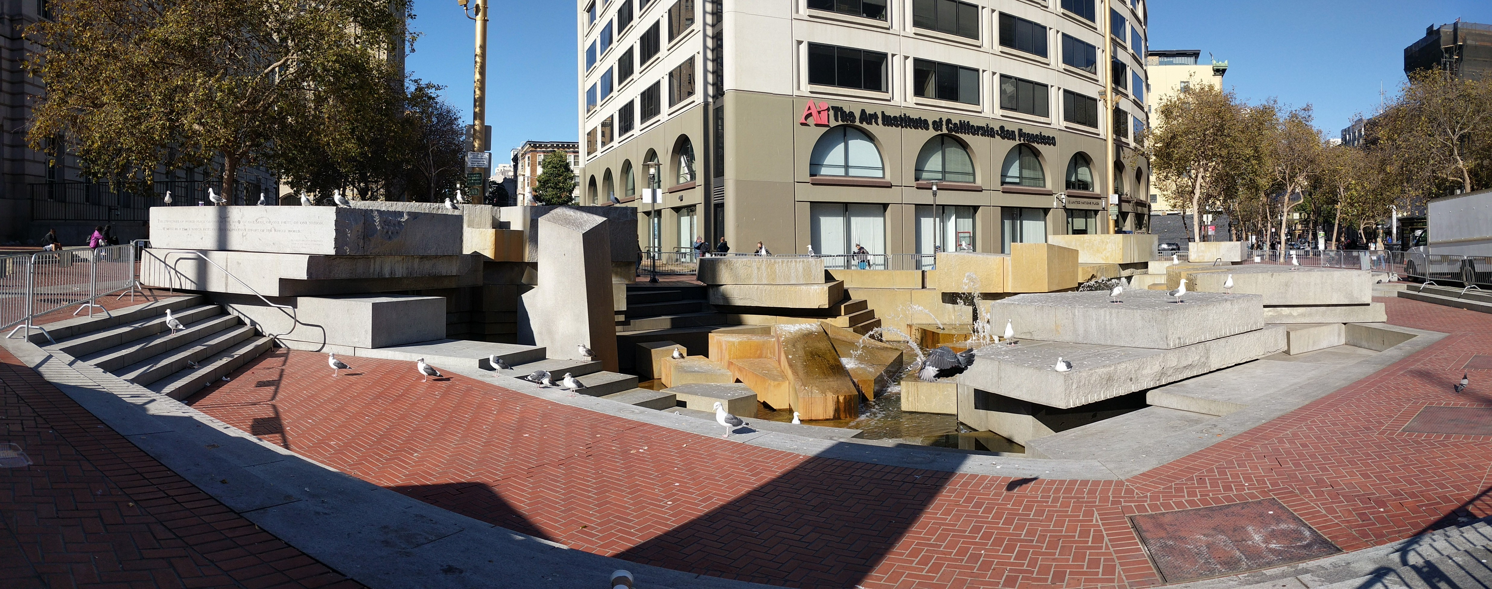 UN Plaza Fountain, San Francisco. By Lawrence Halprin.